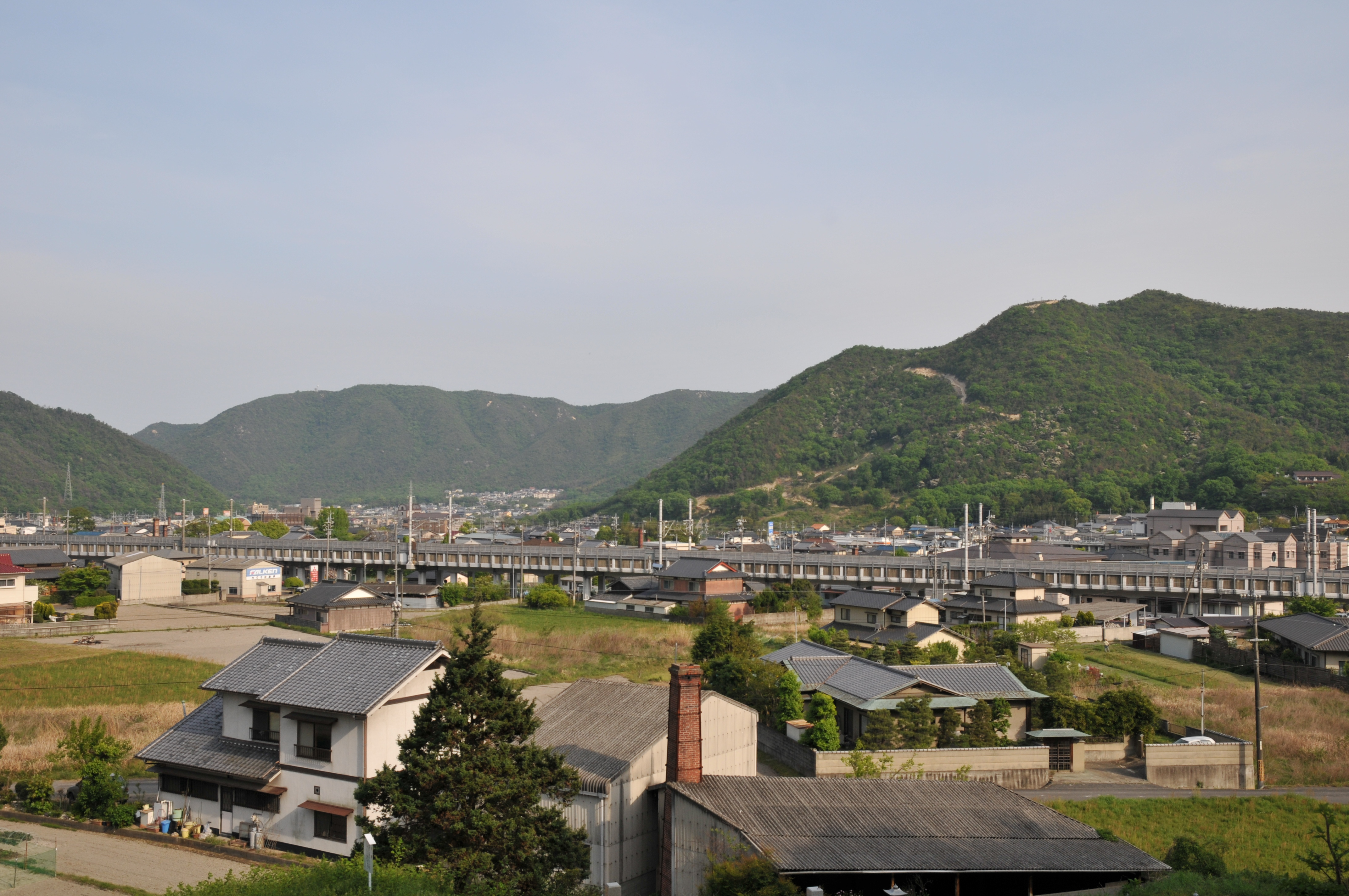 Inbe town view in Bizen city